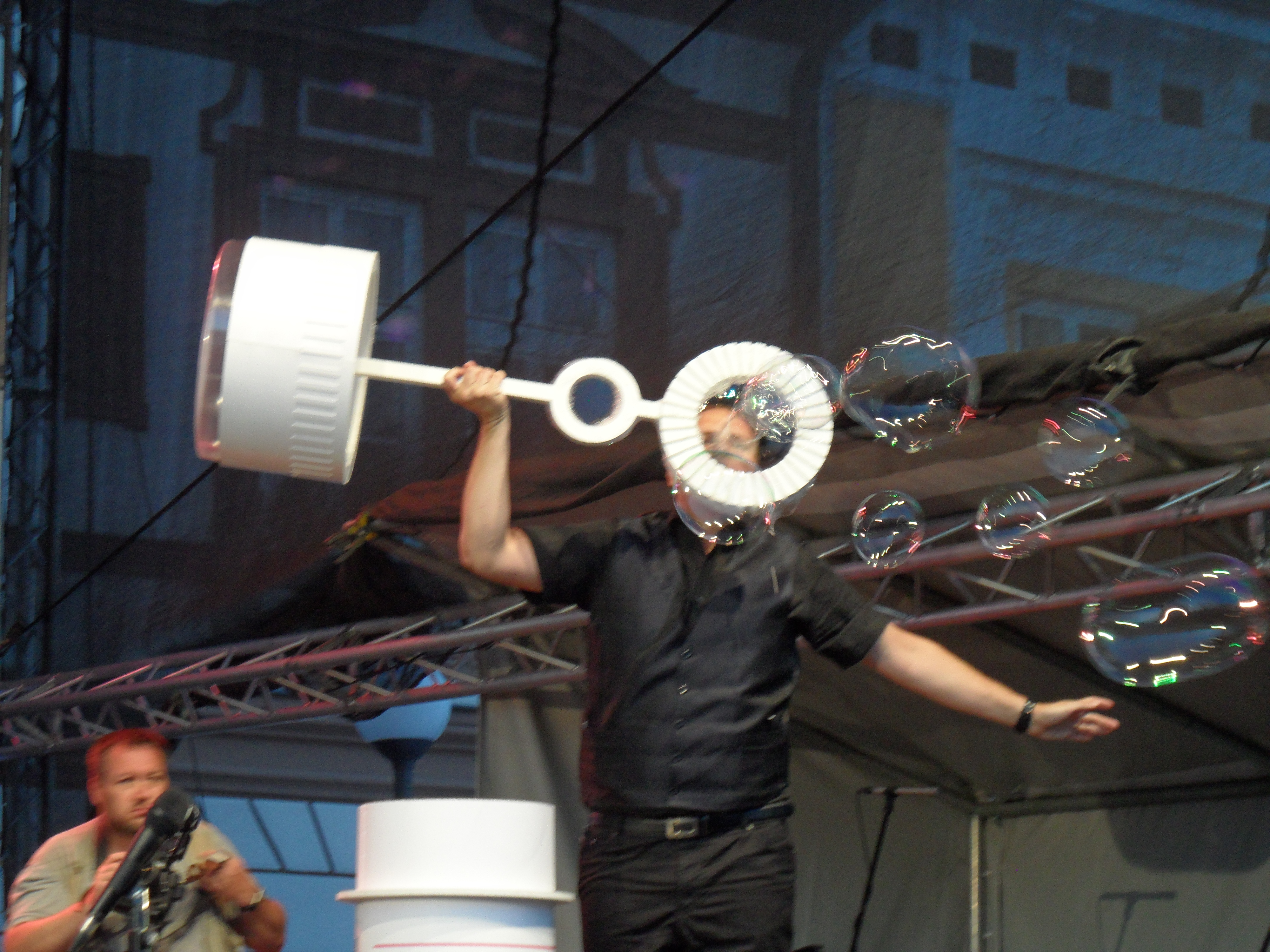 Festival Pelhřimov – the City of Records 2017, Evening Programme: Bubble Show of World Champion Matěj Kodeš: the Largest “bublifuk” (140 cm). Pelhřimov District, the Czech Republic.